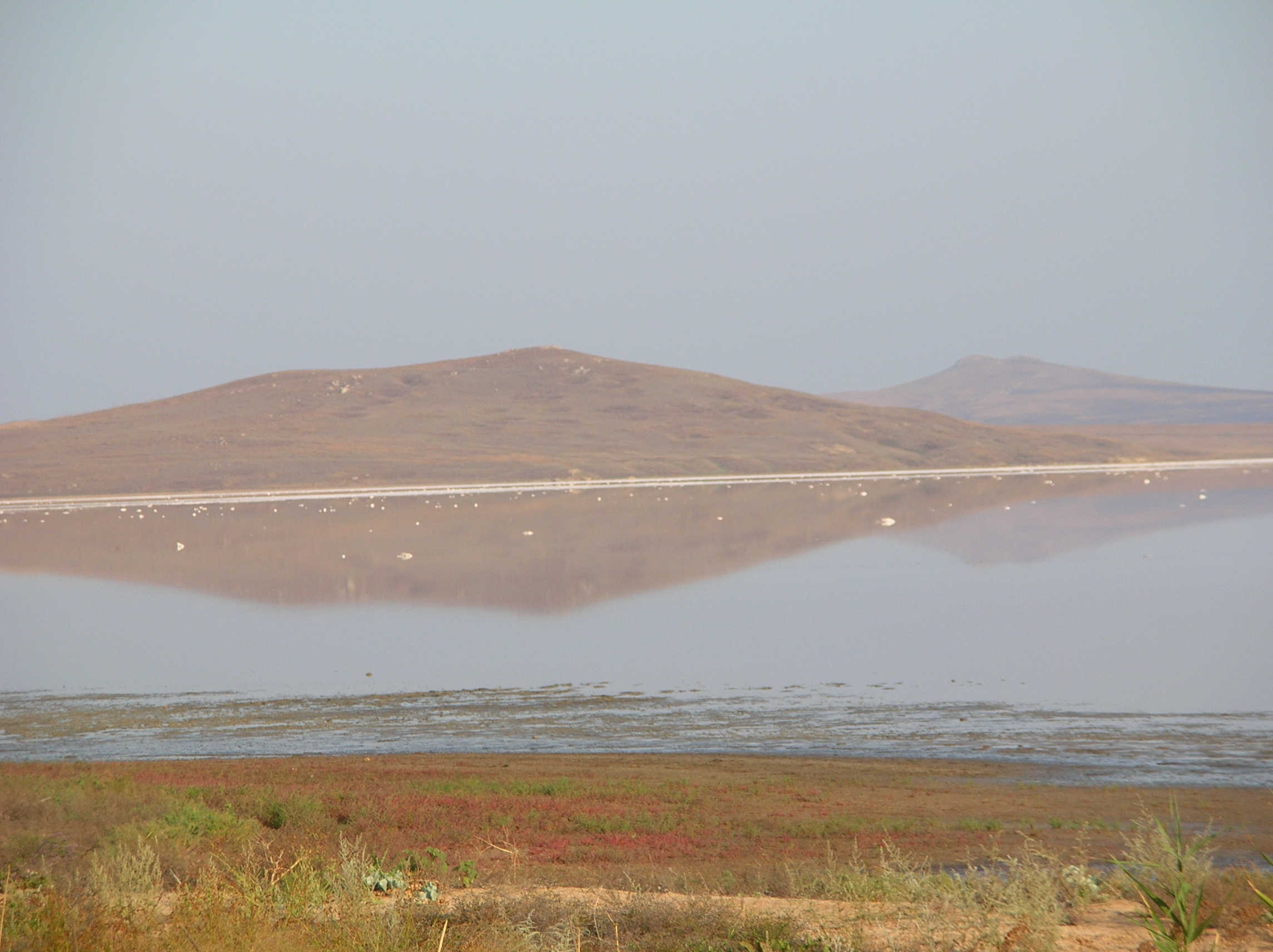 Salt lake Kojashkoje in Opuk natural reserve.